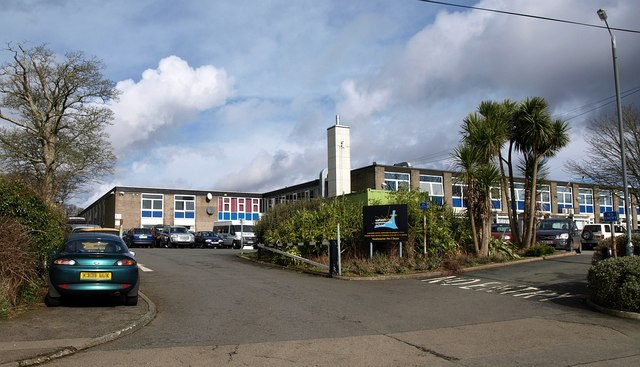 Community School "The school added the ".net" to its name in September 2004 to reflect the extent to which the use of ICT and emerging web technologies were influencing learning" Saltash.net_community_school . Seen from bridleway 636/27/1 which runs through the grounds.